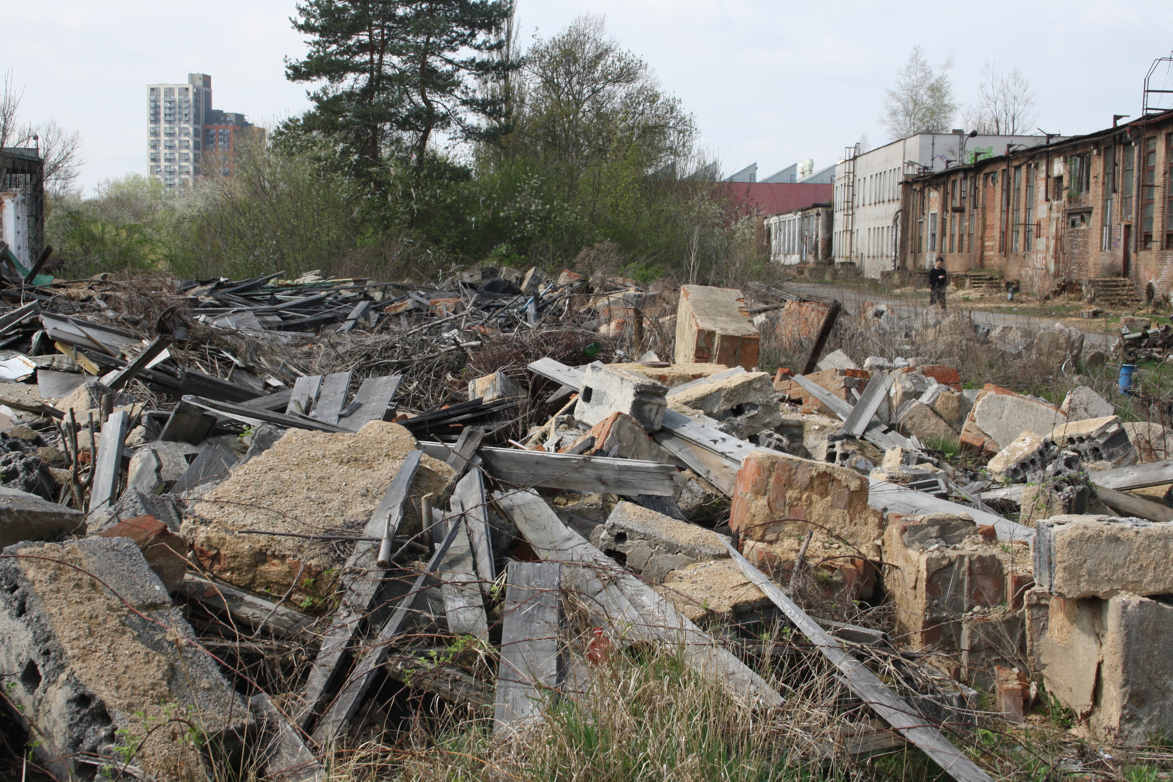 Ruins of the factory - outside of the factory hall